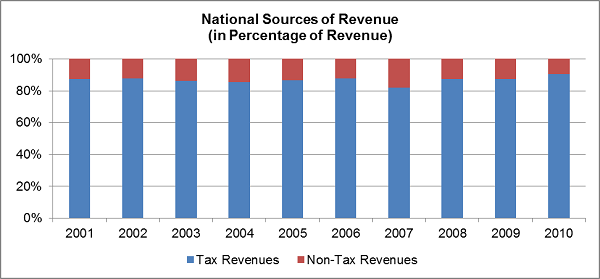 A graph showing the Philippines' sources of revenue from 2001-2010